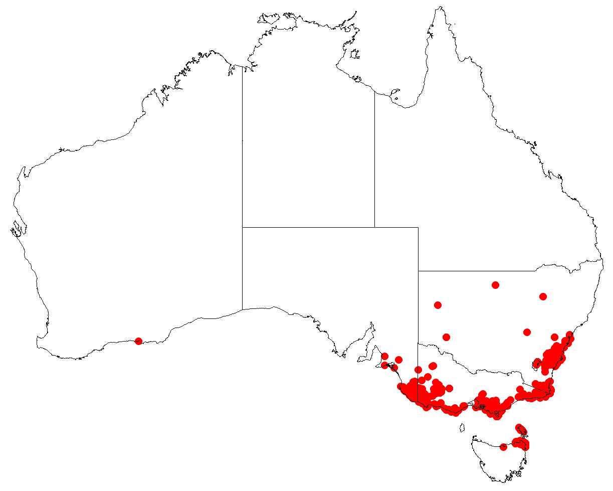 Allocasuarina paludosa occurrence data from Australasian Virtual Herbarium downloaded 4 July 2018